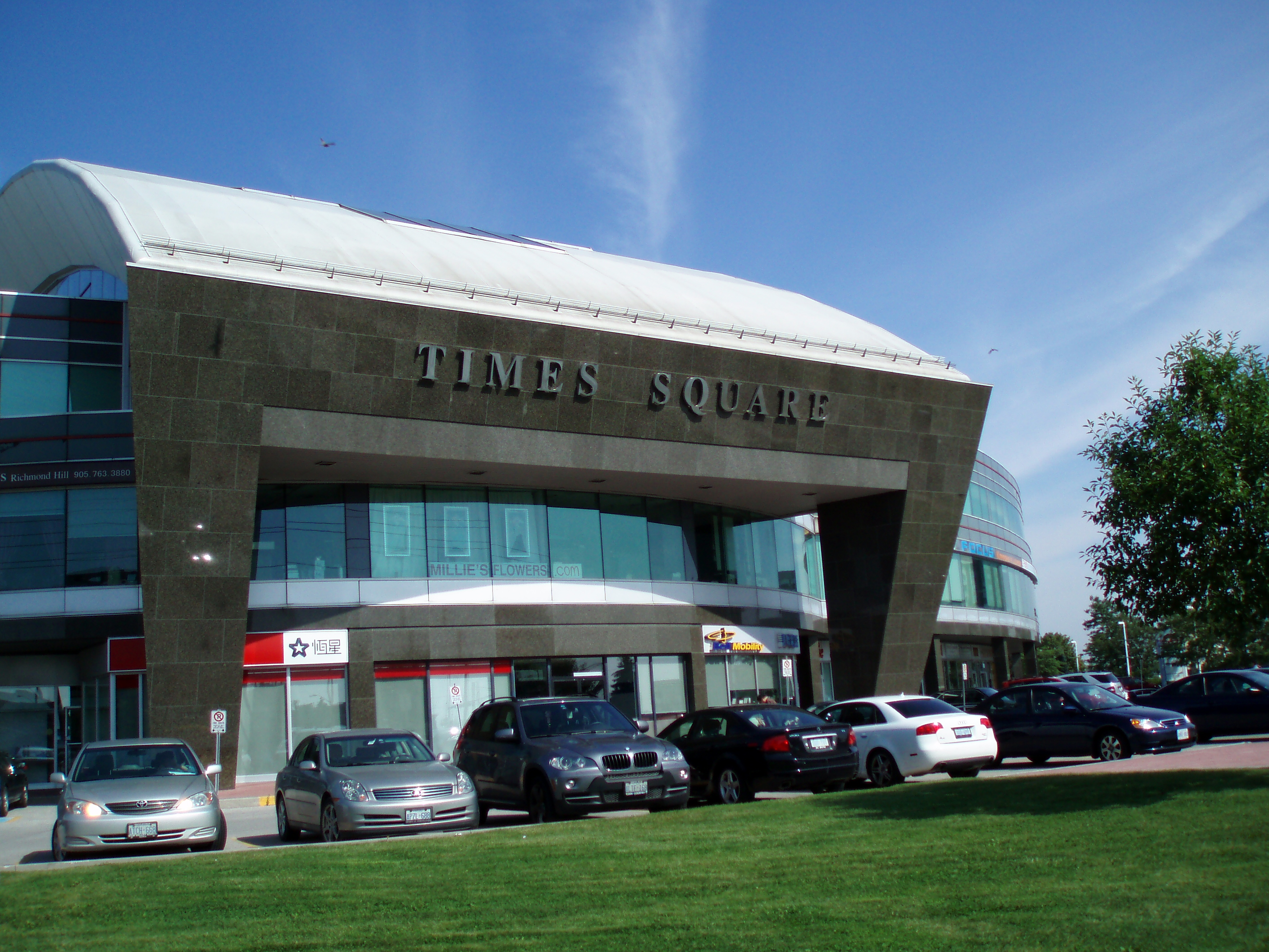 Richmond Hill Times Square (550 Highway 7, Richmond Hill, Ontario, Canada)